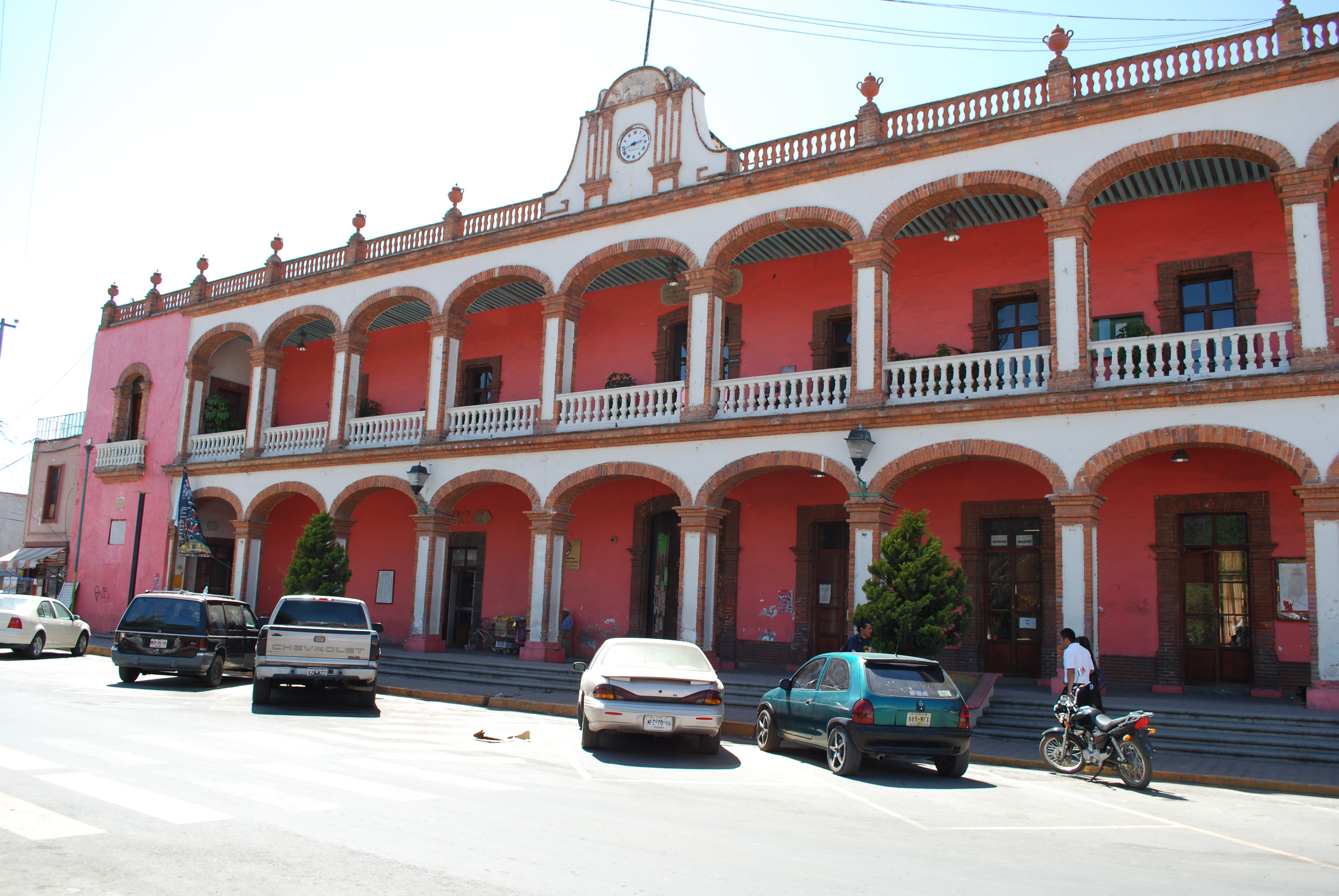 Municipal Palace of Otumba, Mexico State